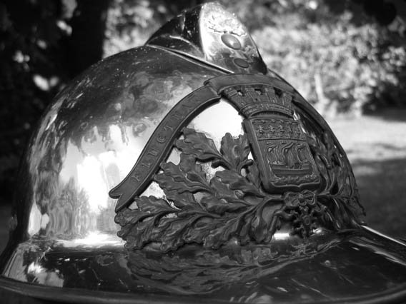 Steel helmet model 1933 used by the Paris firefighters in the 1940's. It has the coat of arms of the city and the motto "Fluctuat Nec Mergitur"